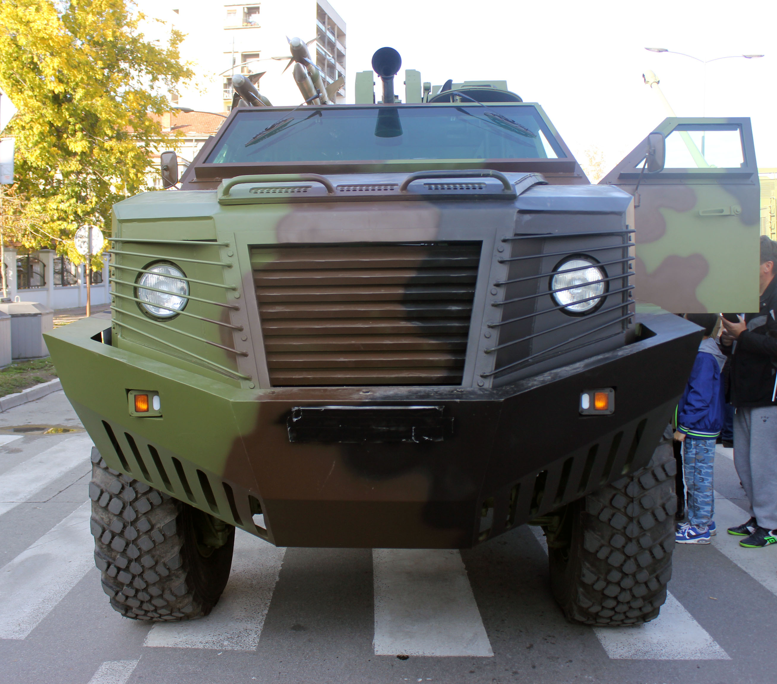 New Serbian hybrid SPAAA 40mm and SAM - PASARS 16 on display at Novi Sad after WW2 liberation parade.